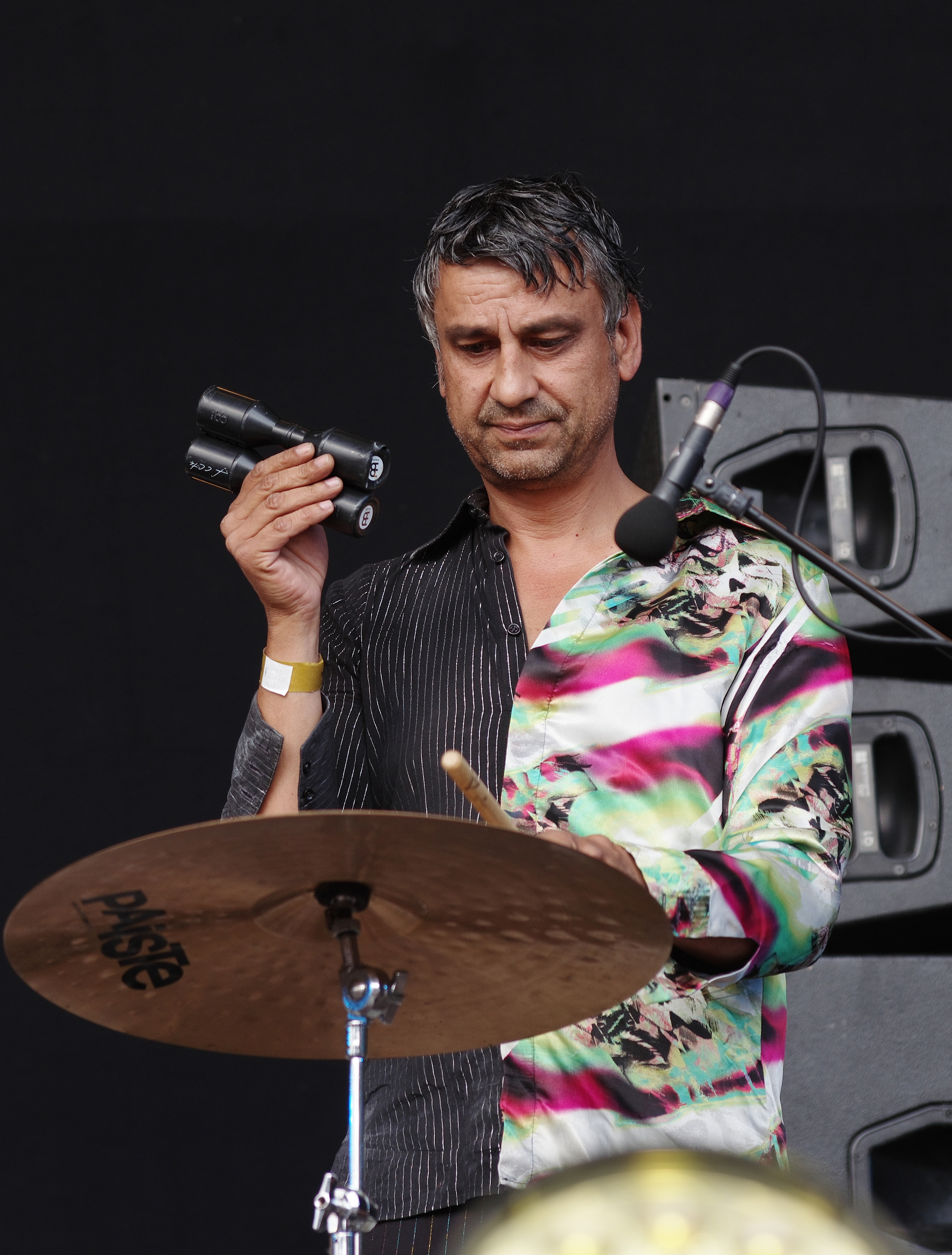 Enno Palucca of Die Goldenen Zitronen at Haldern Pop 2013